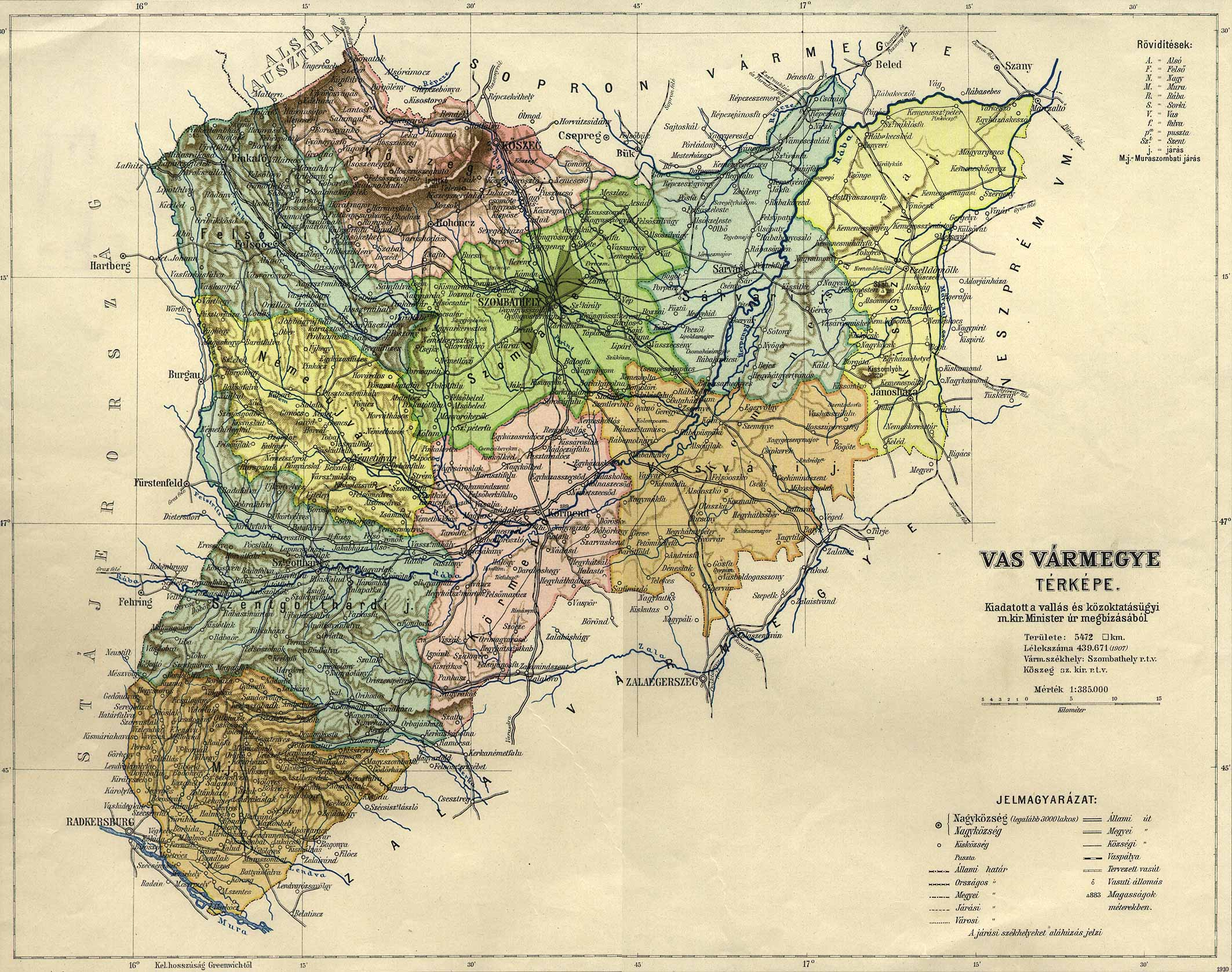 County of Vas in the pre-Trianon Kingdom of Hungary. Komitat Vas w Królestwie Węgier przed traktatem w Trianon.